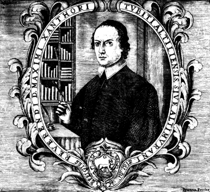 Portrait of Massimo Santoro Tubito - Taken from his book Divinum Theatrum (1702)